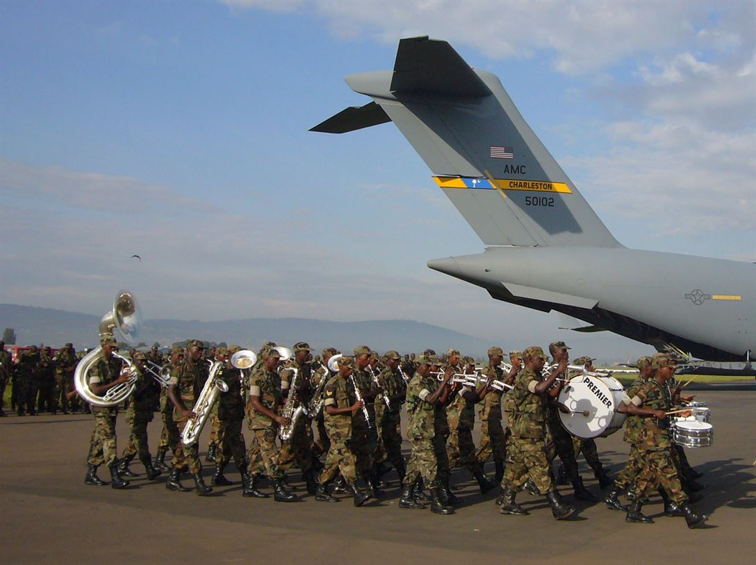 A Rwandan military band performs Oct. 20, 2007, at the Kiglai International Airport, Rwanda, for Rwandan soldiers returning home in a U.S. Air Force C-17 Globemaster III transport after an eight-month deployment to the Darfur region of Sudan. Airmen from Ramstein Air Base, Germany, and Charleston Air Force Base, S.C., are providing airlift support to the African Union effort in Darfur. Photo by Capt. Erin Dorrance, USAF